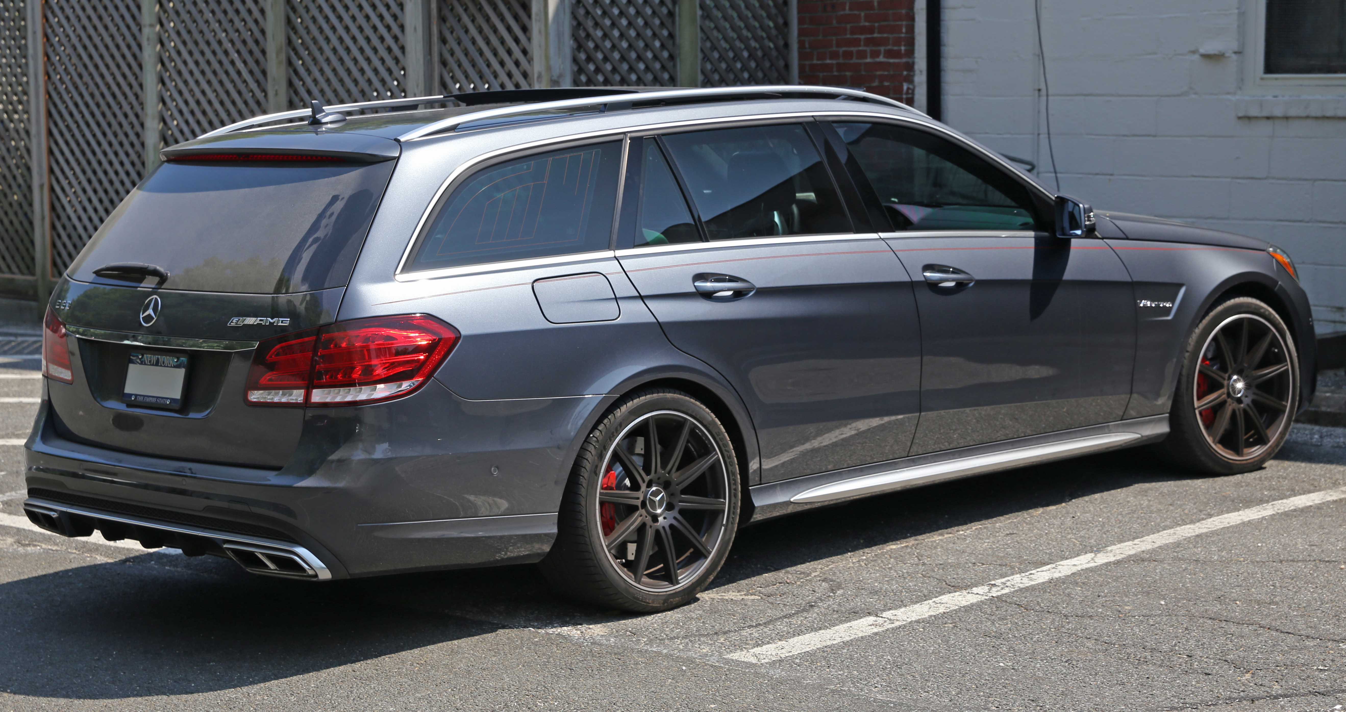 A 2014 Mercedes-Benz E63 AMG S-Model T (4Matic). The more powerful (585PS/577hp) S-Model is the only station wagon E63 available in the United States.